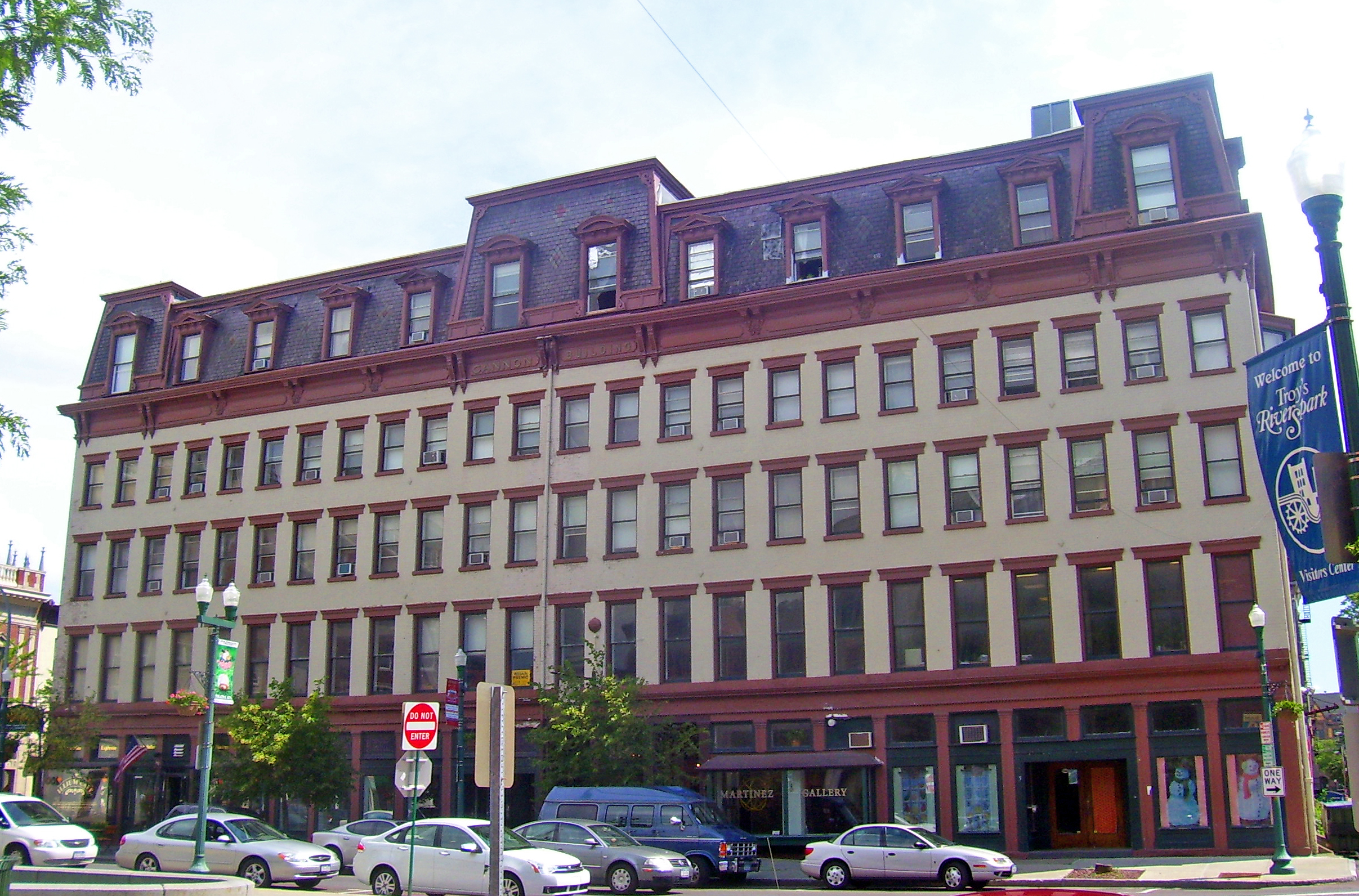 Cannon Building, Troy, NY, USA